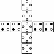 Planar wire crossing for quantum dot cellular automata